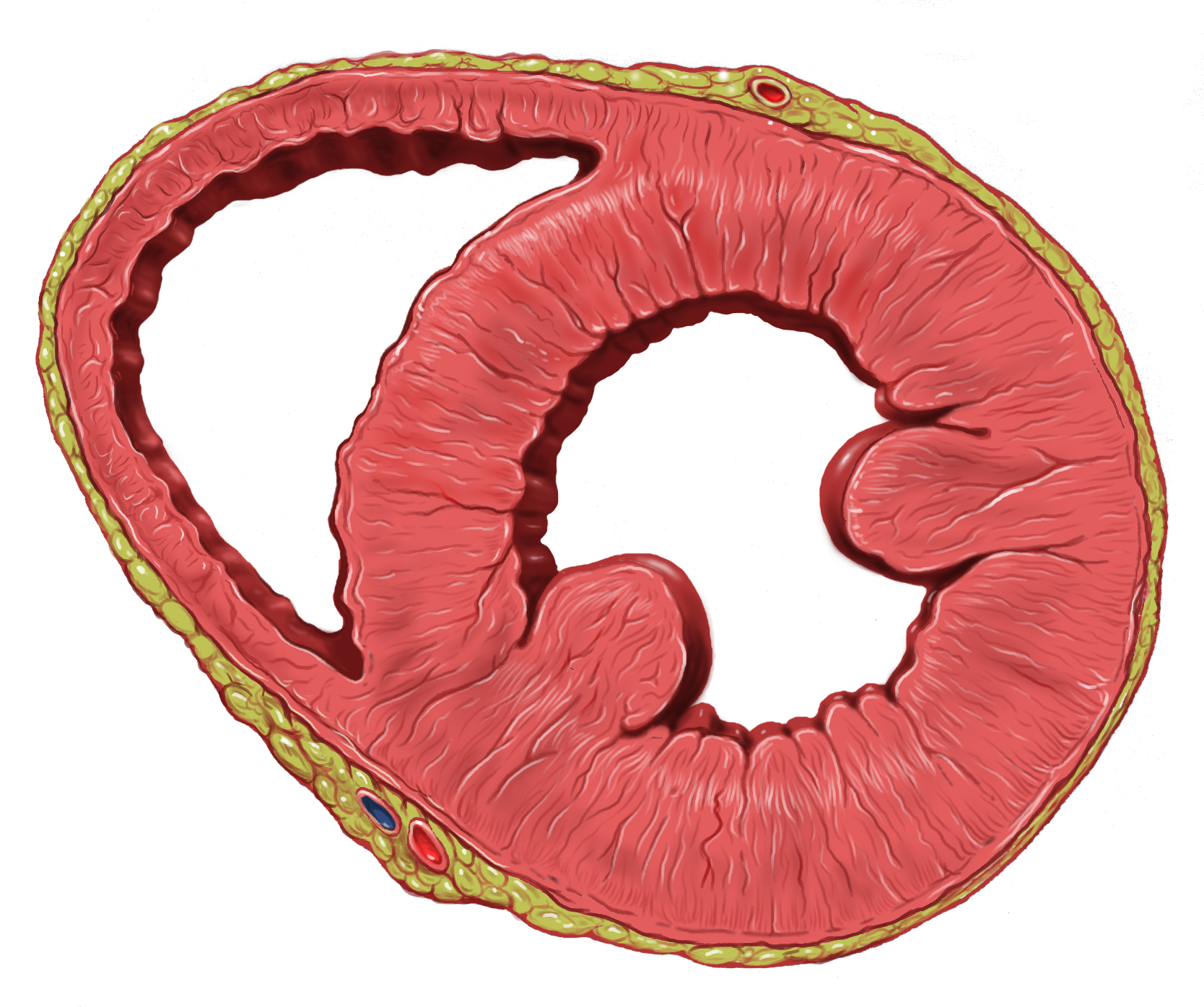 Heart normal short axis left ventricle view